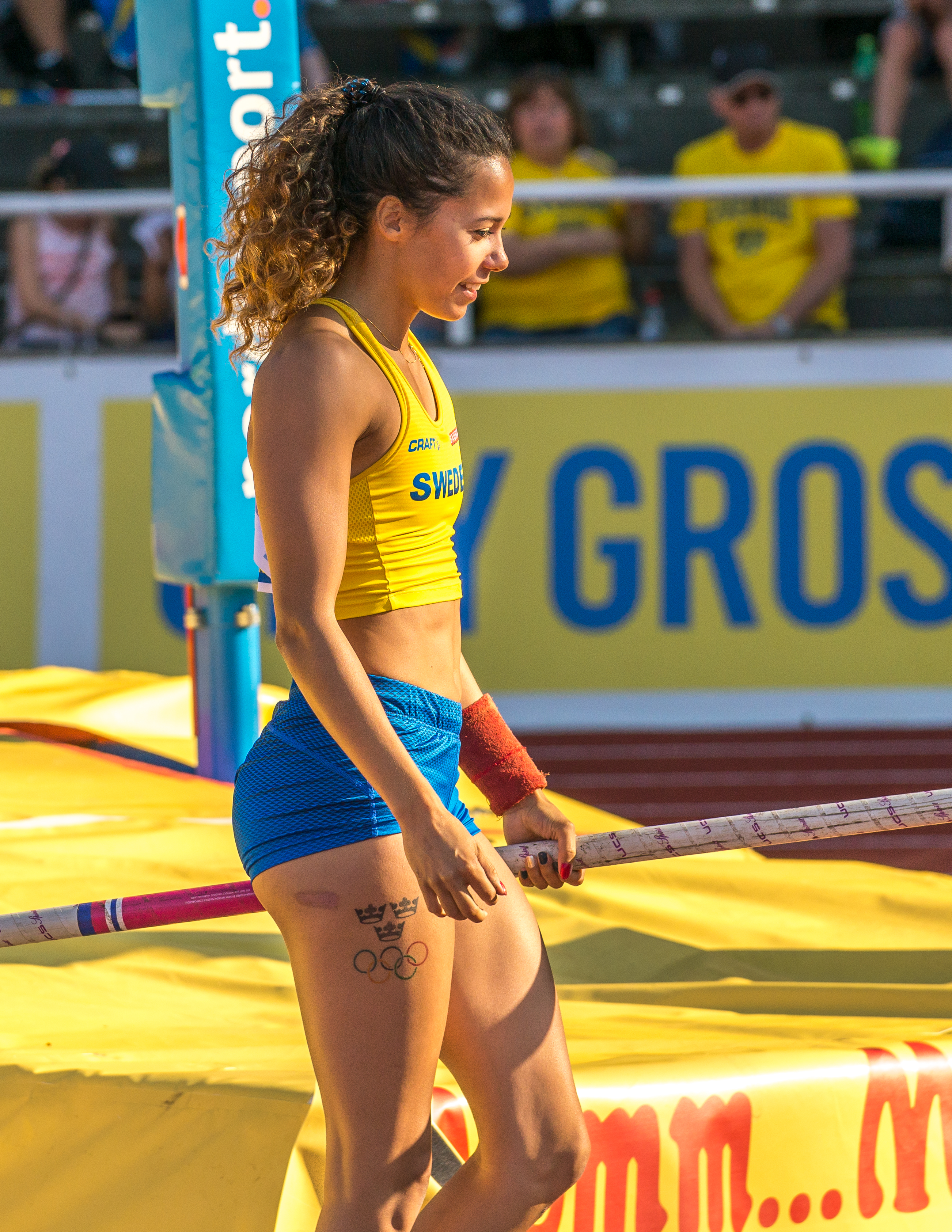 Angelica Bengtsson during the Finland-Sweden athletics international 2019 at the Stockholm Stadium in August 2019.